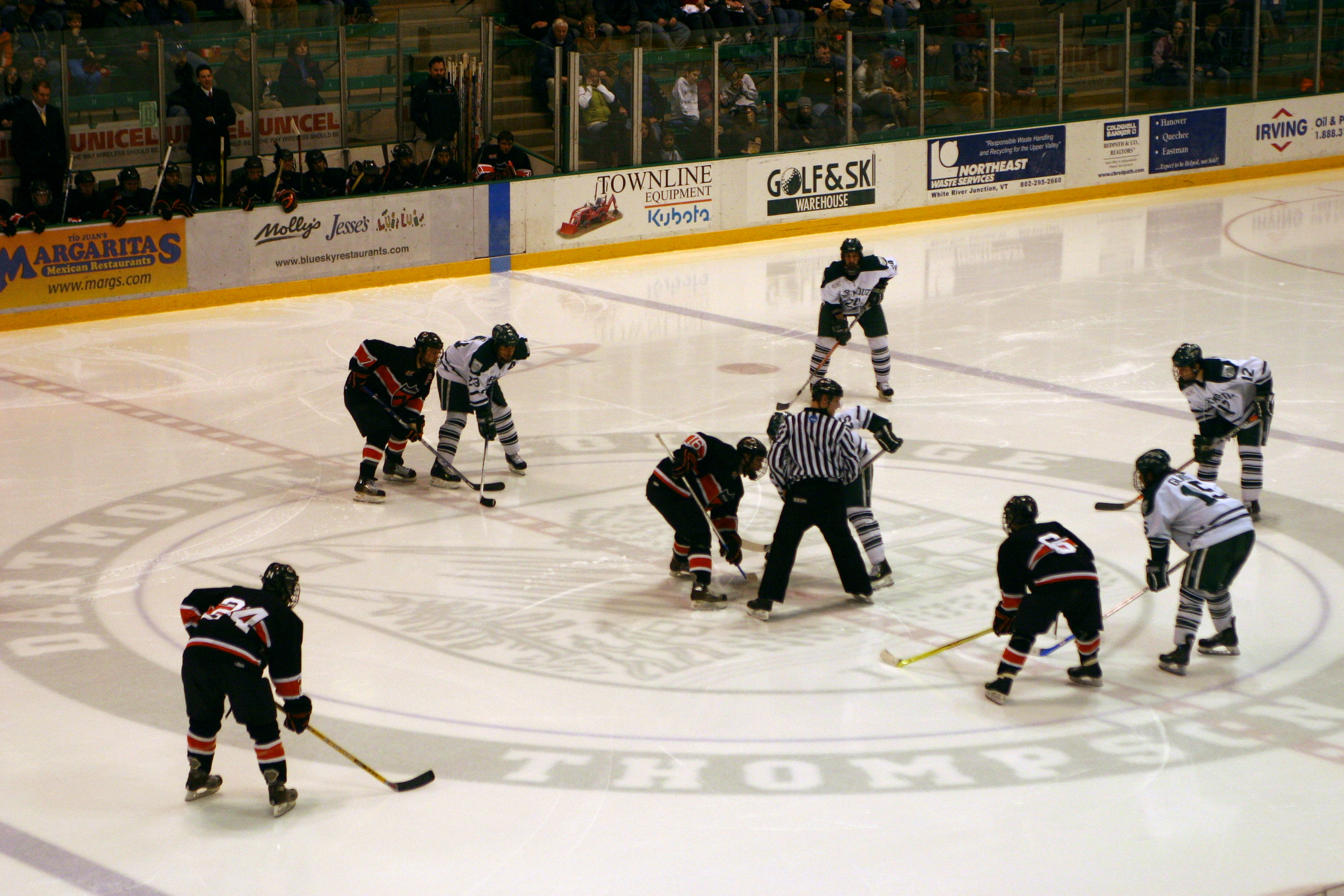 Dartmouth College Big Green men's ice hockey team vs. Princeton University, Ivy League, Thompson Arena